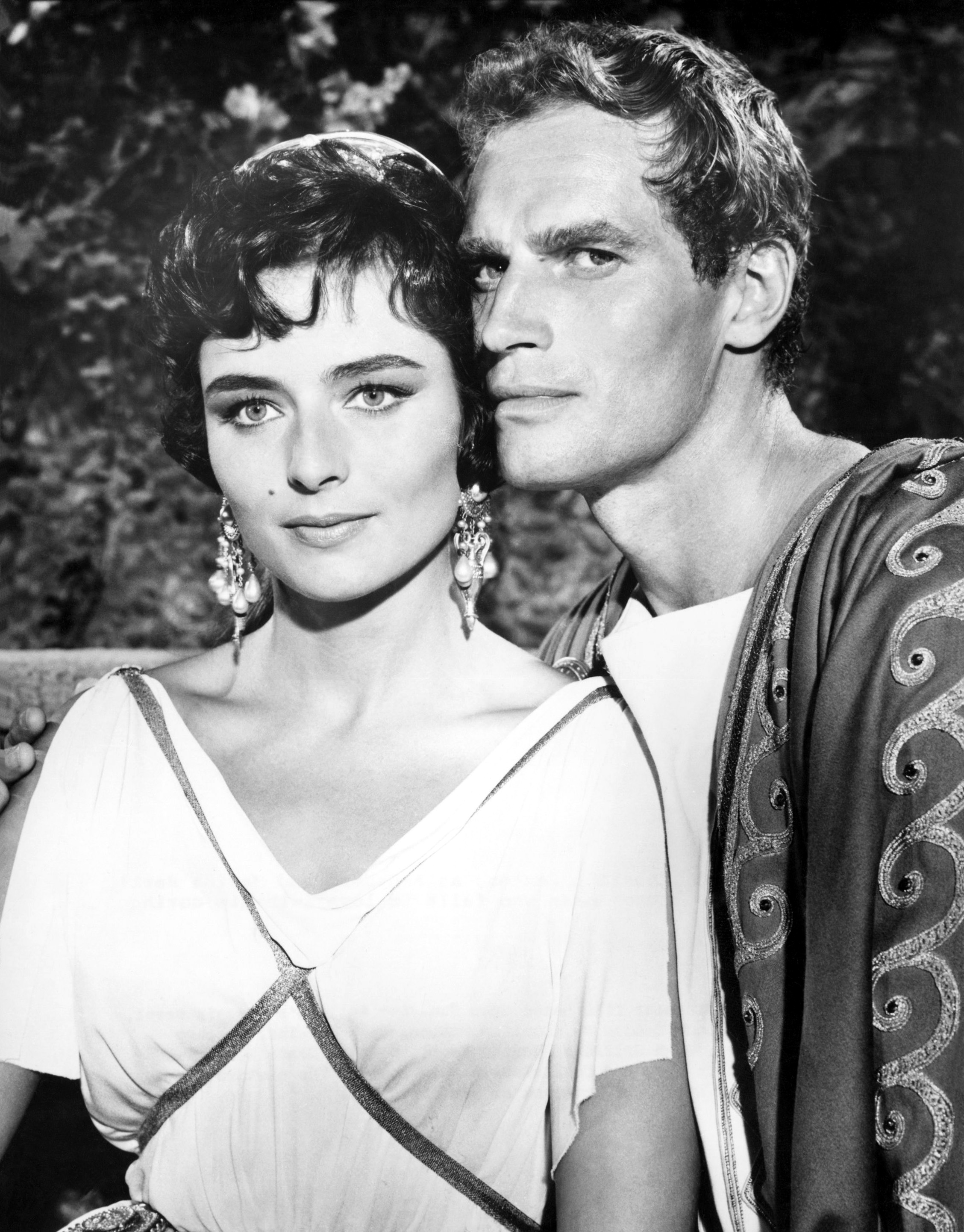 Marina Berti & Charlton Heston in Ben-Hur - publicity still